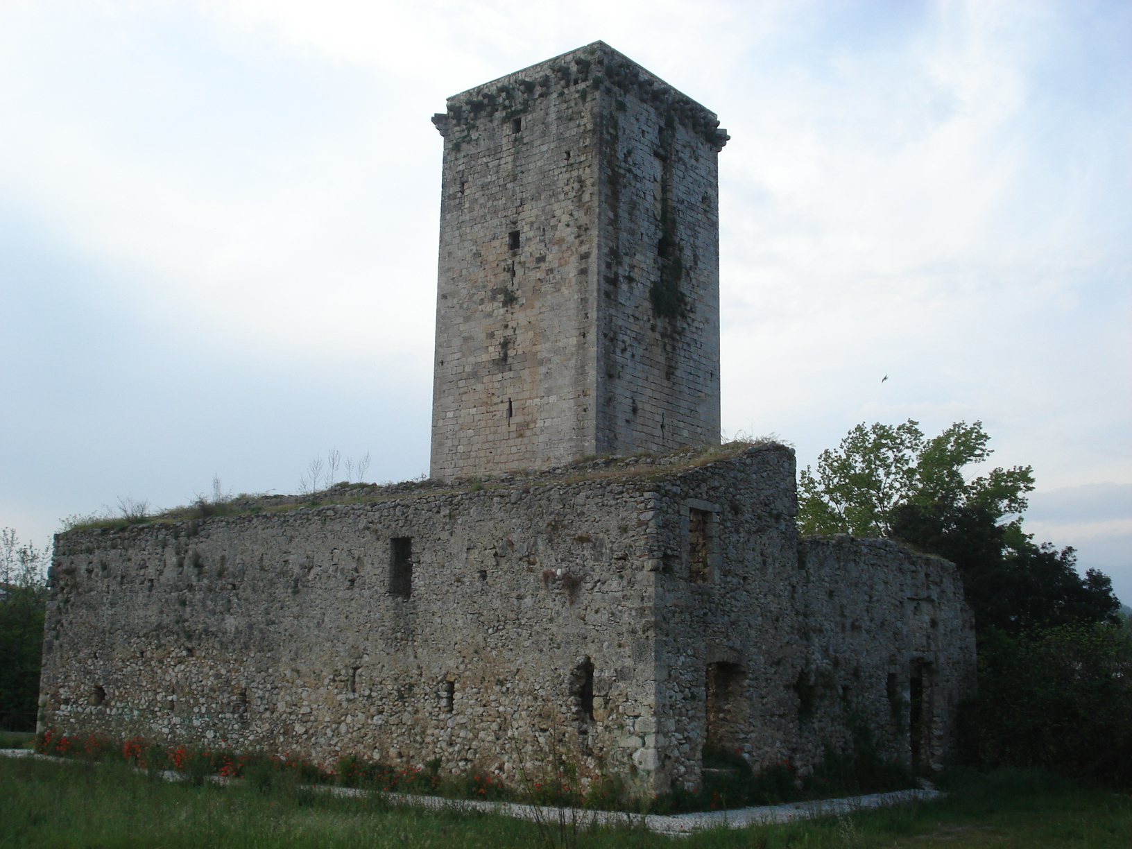 Sant'Eleuterio's Tower sited on the Liri river in Arce, a comune (municipality) in the province of Frosinone, in the region of Lazio, Italy.